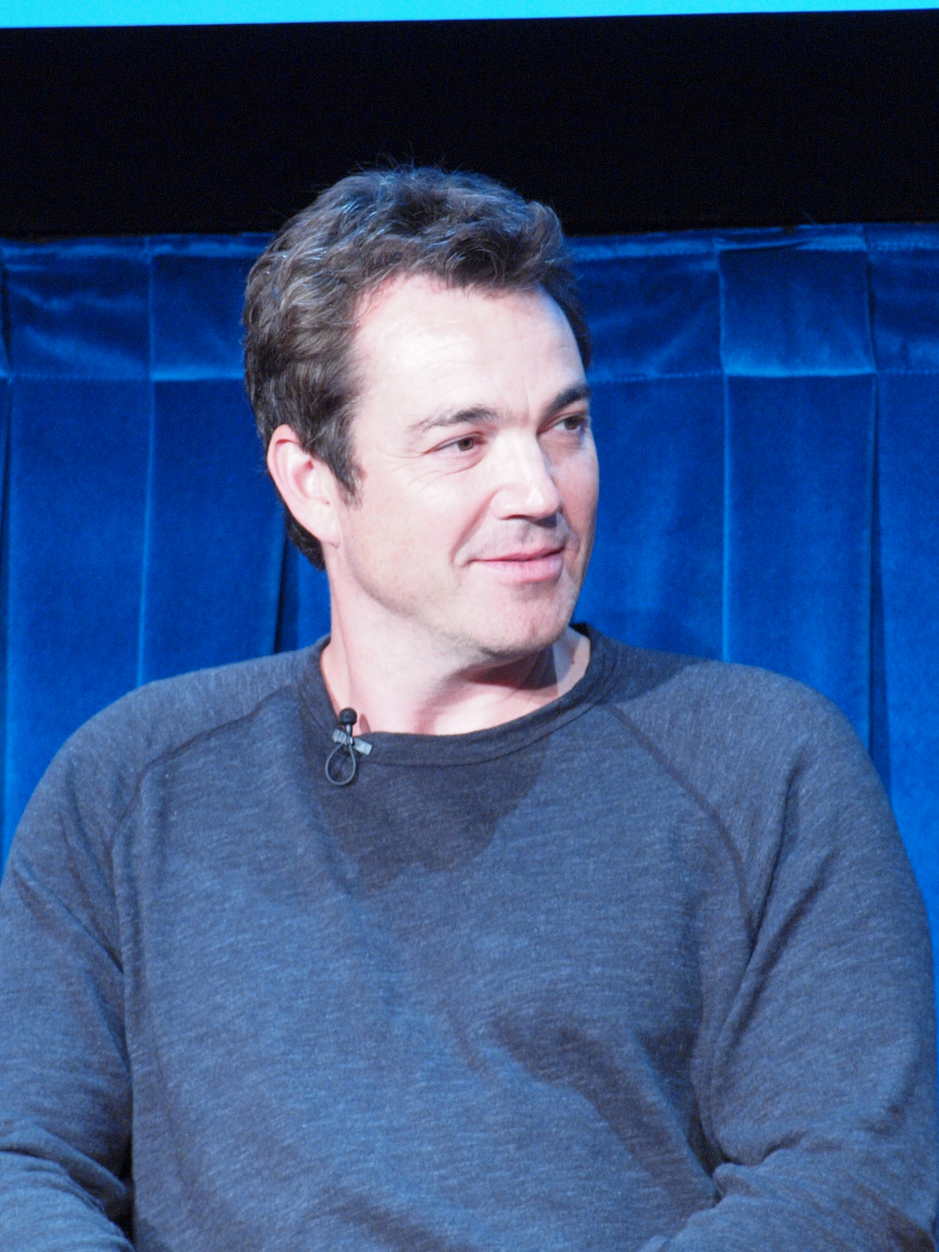 Jon Tenney Closer Paley Panel 11c